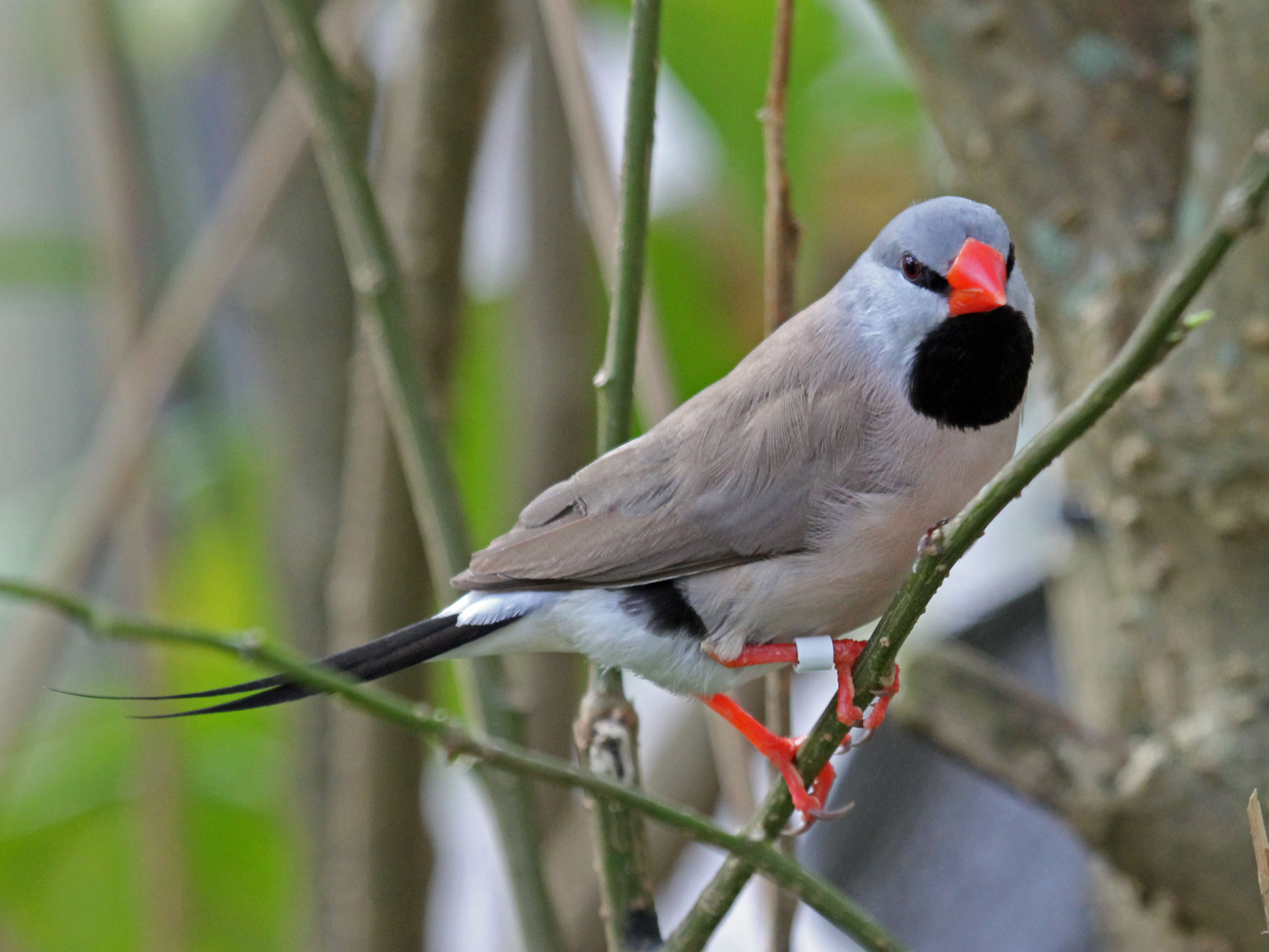 Long-tailed Finch at an aviary in Butterfly World of Florida. This species is also know as a Shaft-tailed Finch.